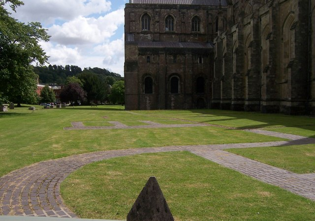 Cathedral Precinct - Winchester View of the north side of the cathedral showing the slabs which delineate the shape of earlier structures on the same site.